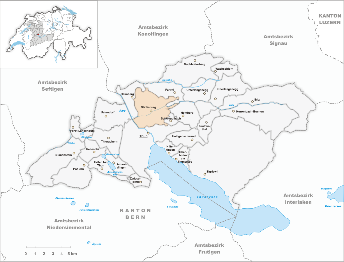 Municipality Steffisburg